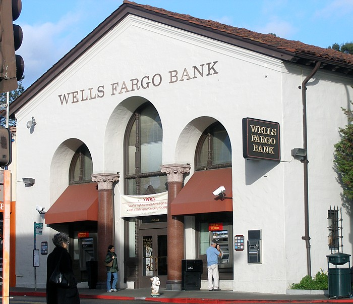 A Wells Fargo bank on College Avenue in Berkeley. This branch office is typical of older Wells Fargo facilities in inner-city areas in the state of California.